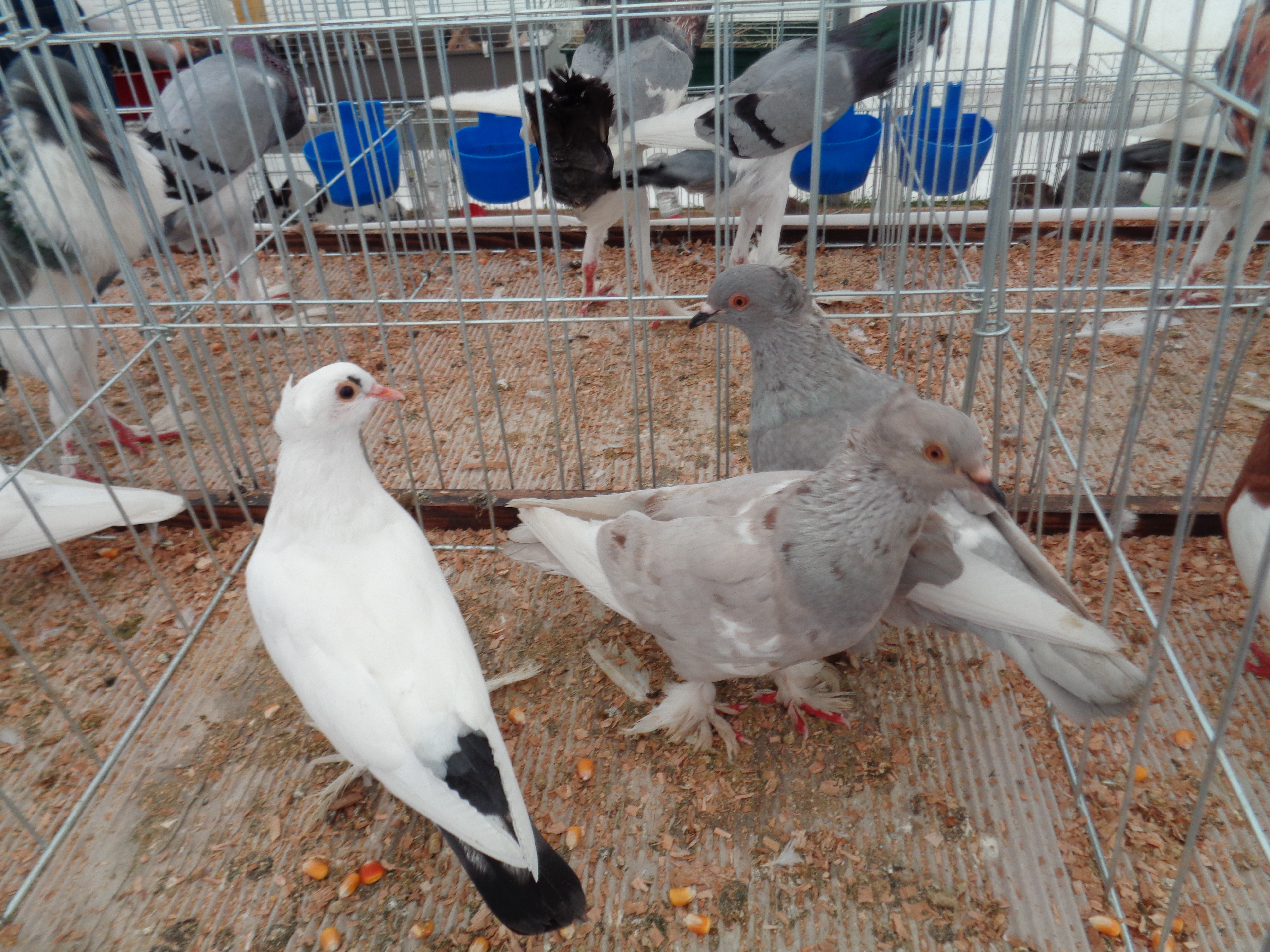 Međimurska lastavica (Medimurje "swallow"), pigeon breed originating in Medjimurje, northern Croatia, exhibited at 2016 MESAP Trade Fair in Nedelišće, Medjimurje County